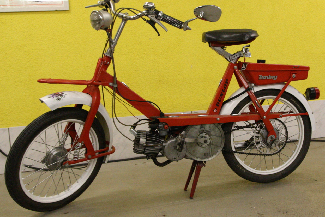 Mofa from GDR, produced 1970-1972